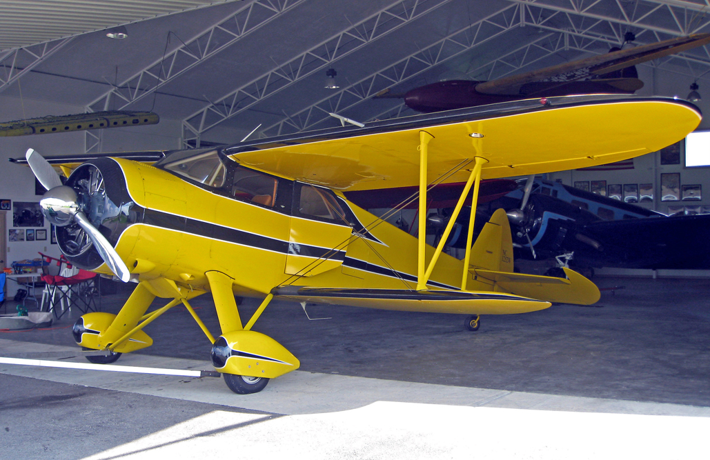 Waco SRE N1252W at Belvidere Poplar Grove airport Illinois in 2010